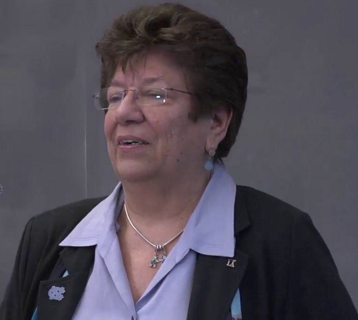 Jan Boxill during a lecture on "Using Sports as a Public Forum for Ethics" at the University of California, Santa Cruz.